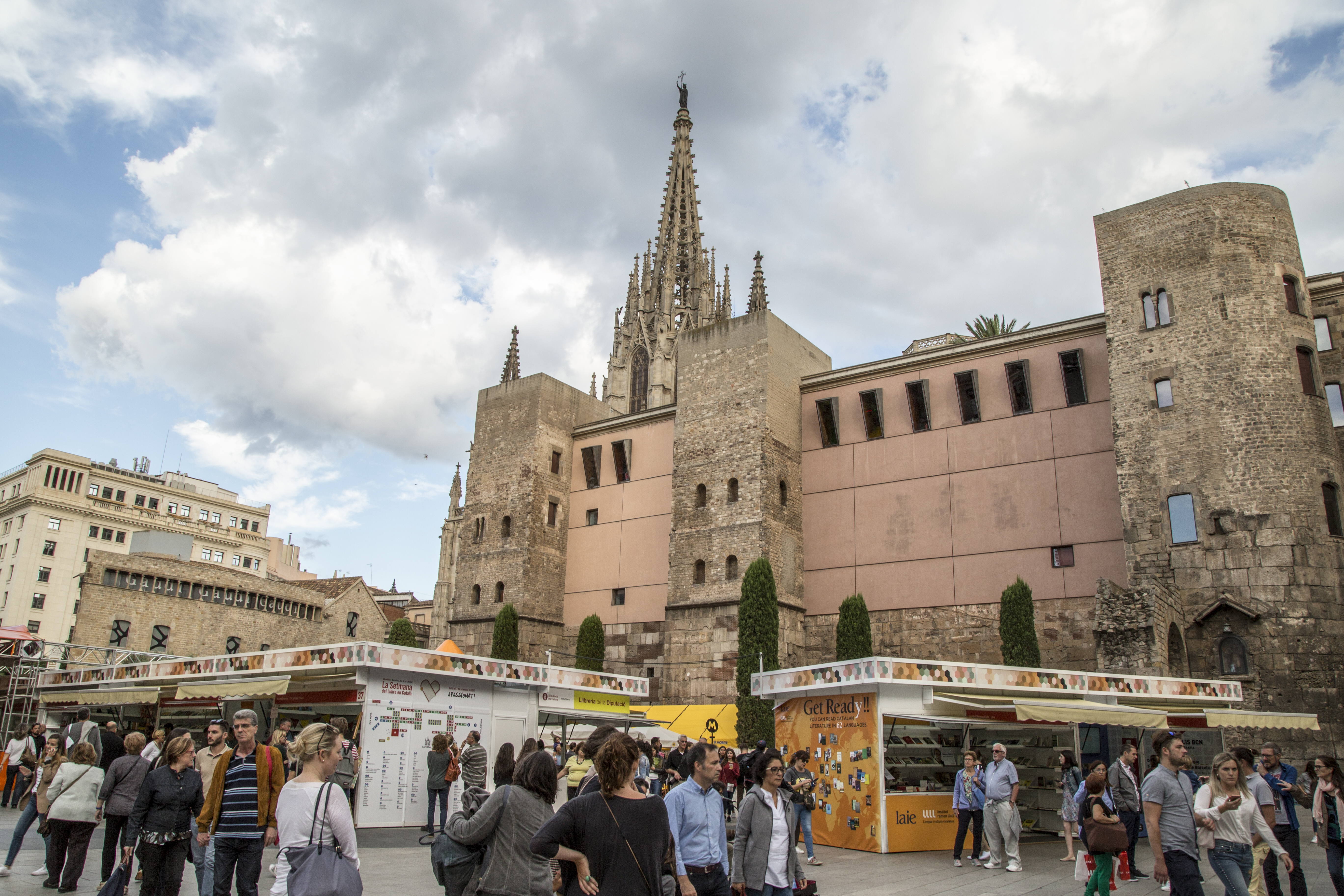 Overview of the Catalan Book Week 2017, with the Cathedral of Barcelona in the background.